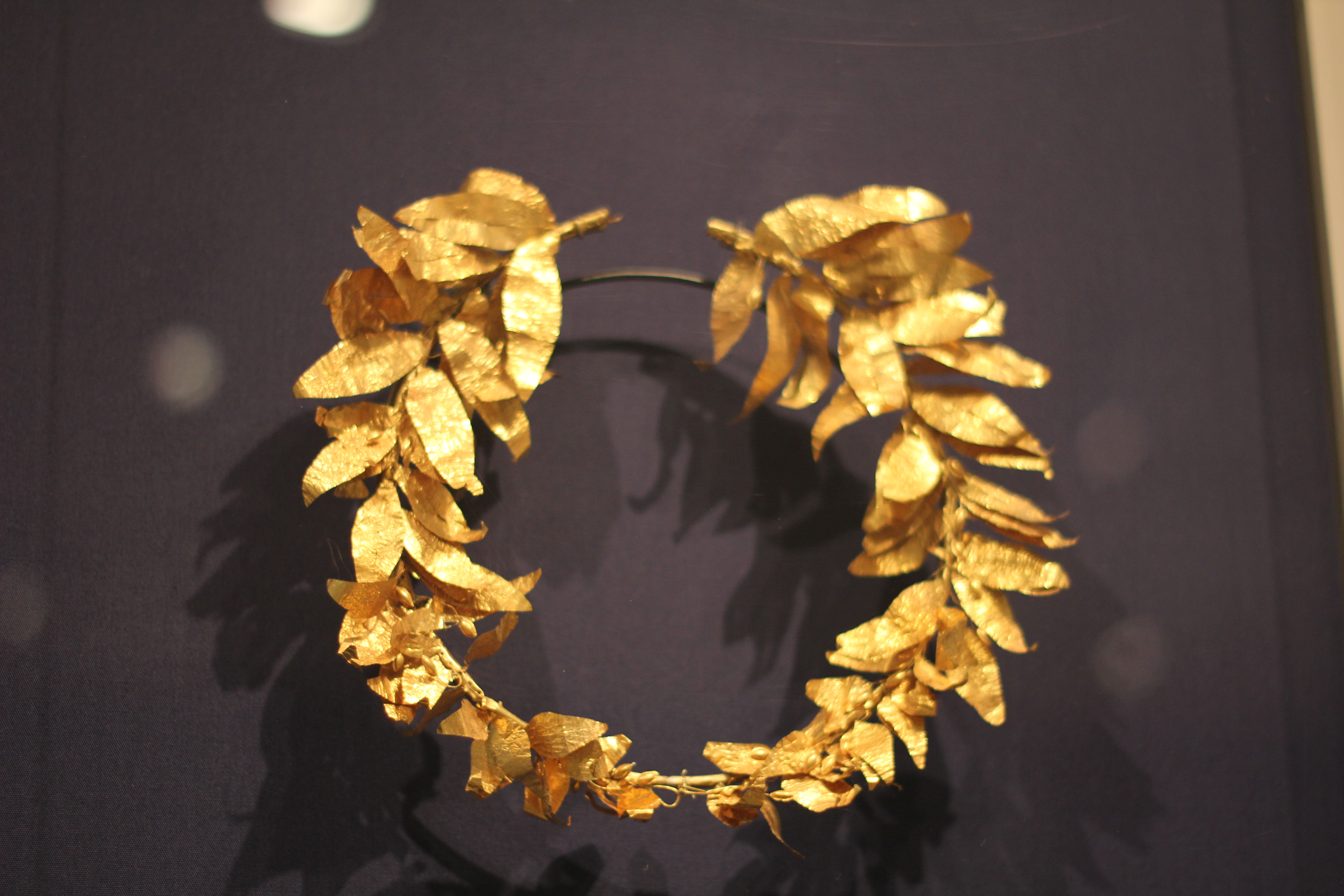 Greek gold wreath at the Dallas Museum of Art